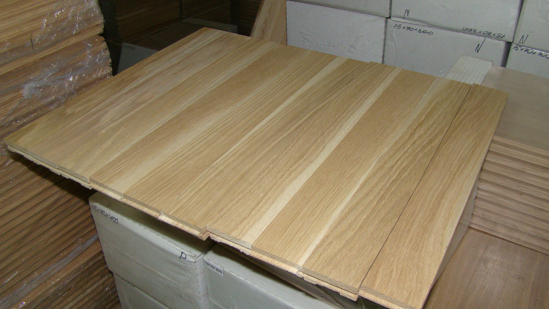 На планках дубового штучного паркета хорошо видна заболонь.